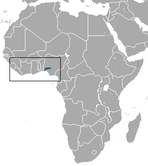 Large-headed Shrew (Crocidura grandiceps) range